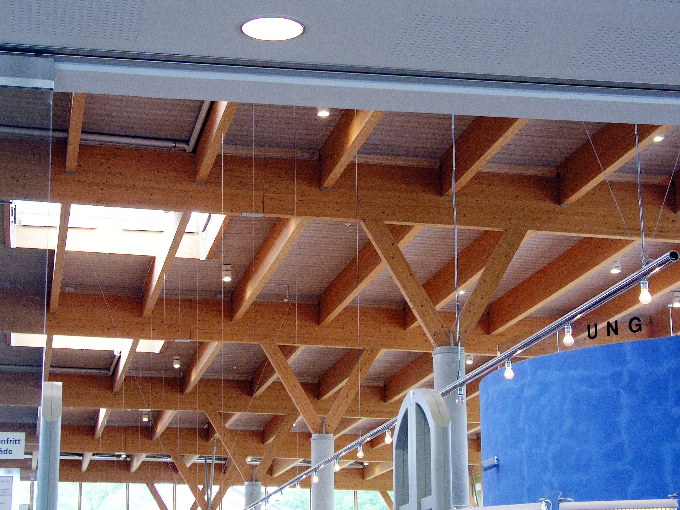 Library in Linköping, Sweden. Interior, ceiling. Stifts- och landsbiblioteket is the new building that was built following the 20 September 1996 fire. The new building was inaugerated in February 2000.